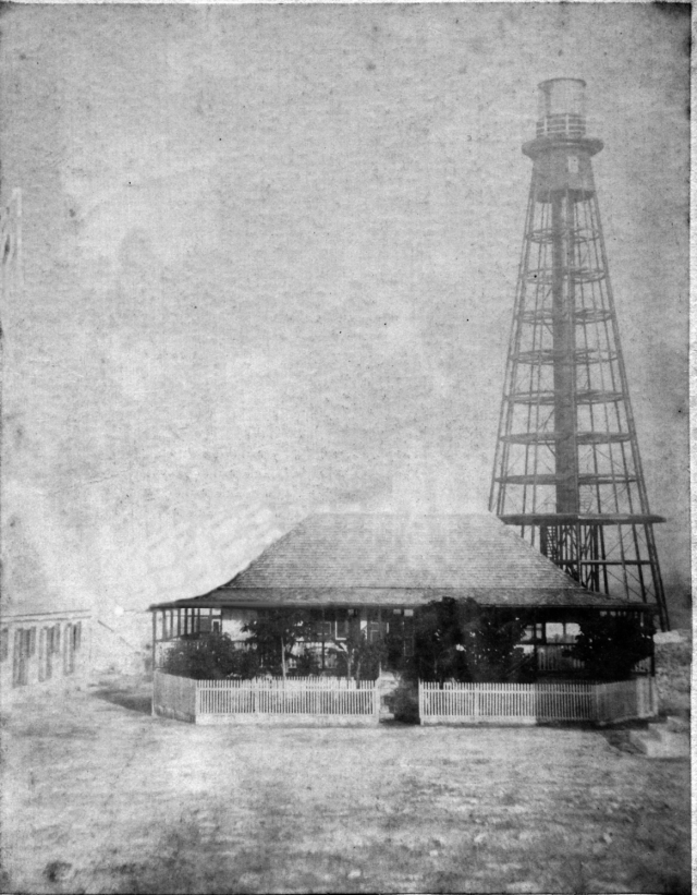 Old lighthouse, Sombrero, and superintendant's house about 1880.